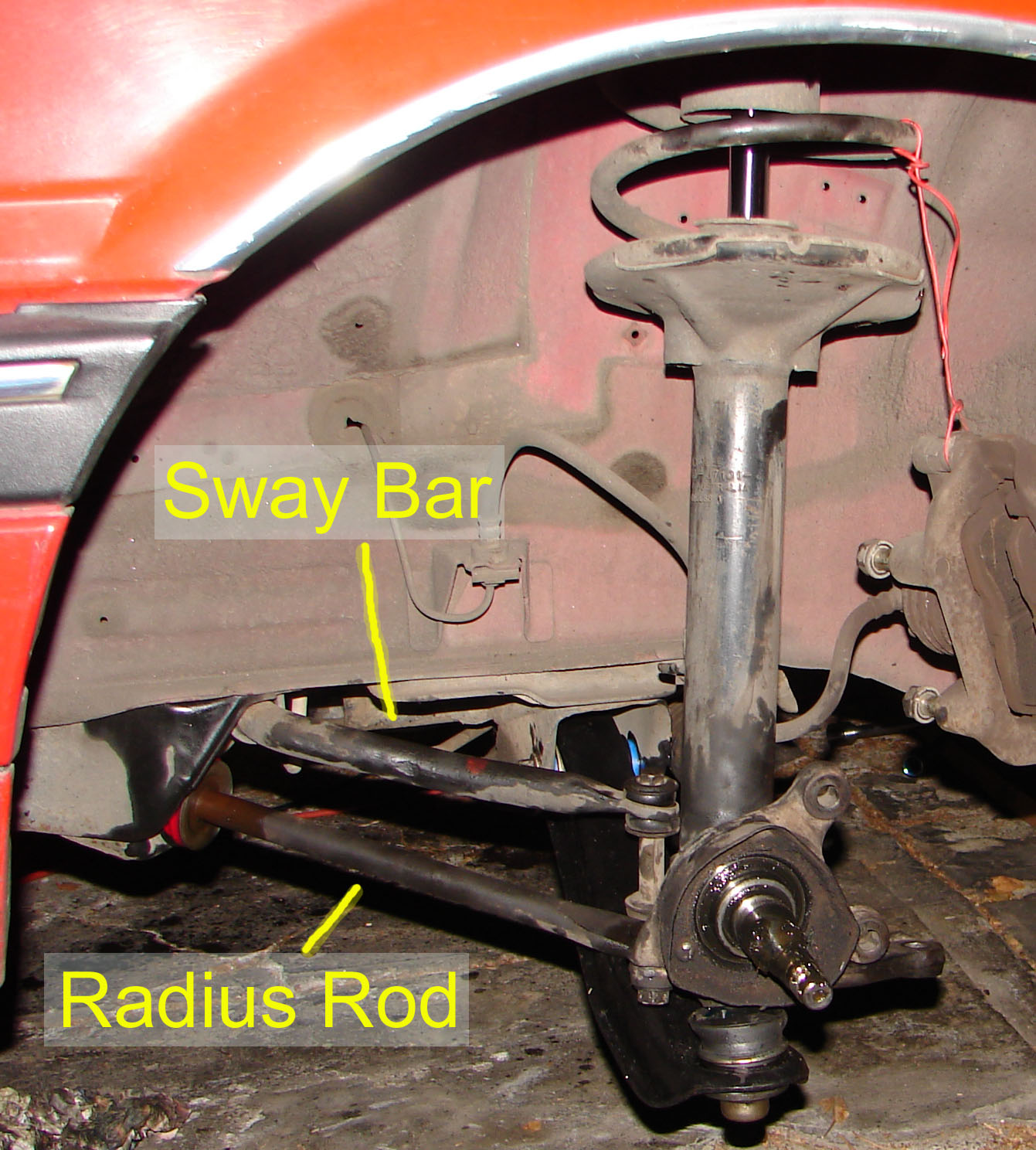 Radius Rod & Sway Bar on MacPherson Strut Front Suspension